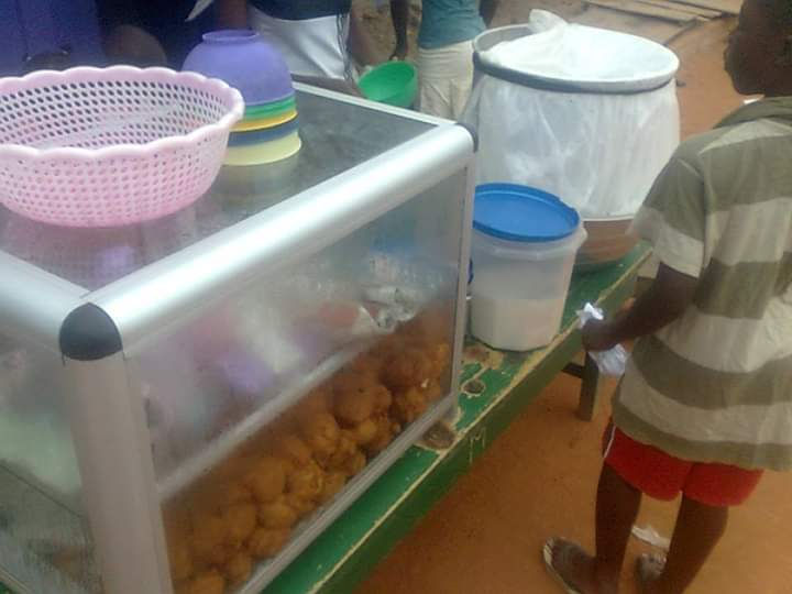 Koko and koose joint